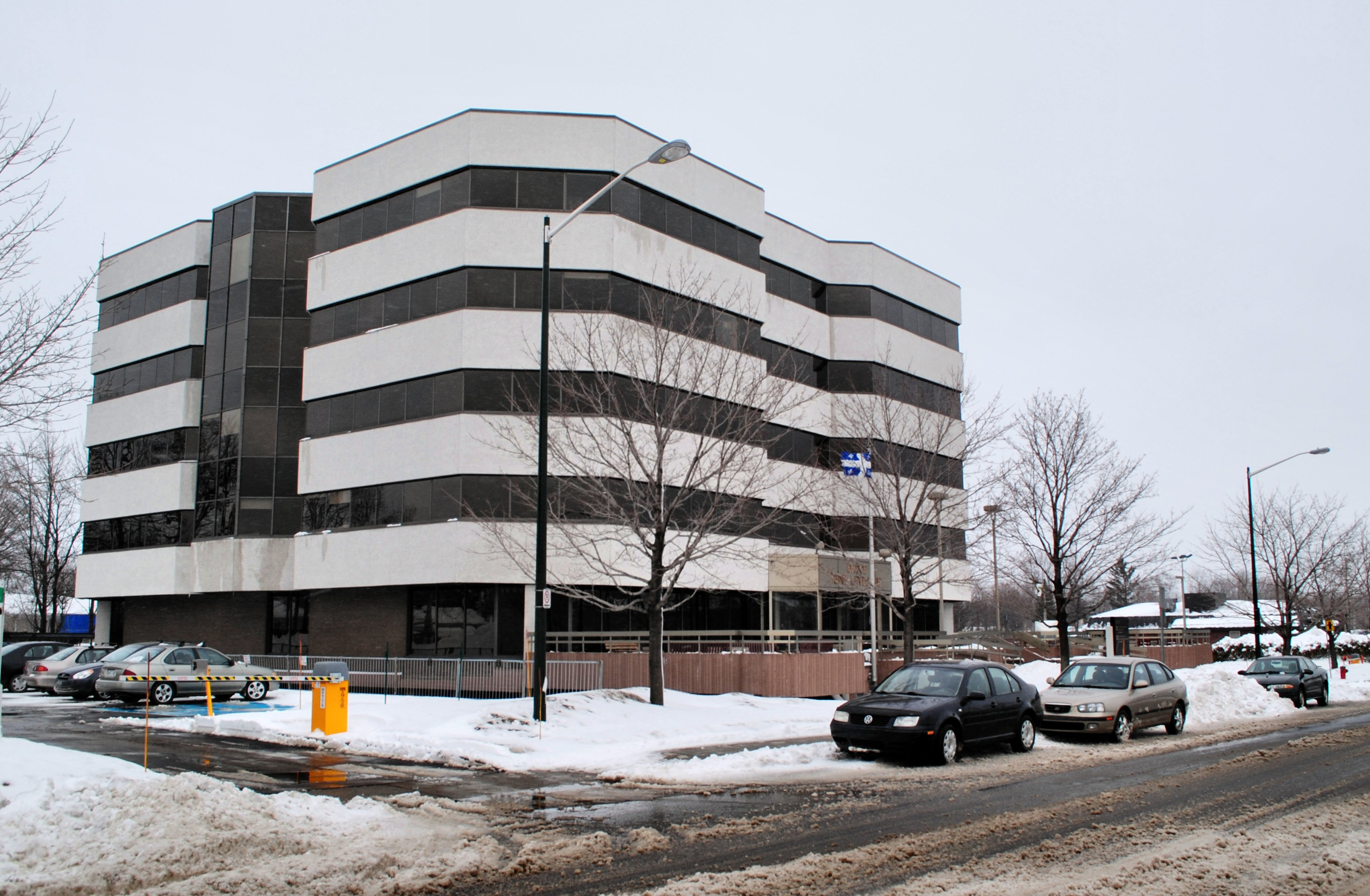 Directeur général des élections du Québec (DGEQ) headquarter in Québec city, Québec